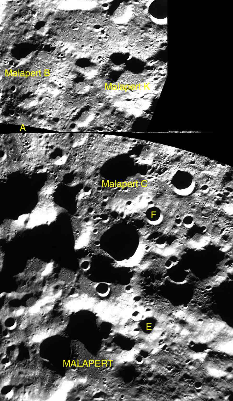 Parts of the charts LAC-137, LAC-144 used for the presentation